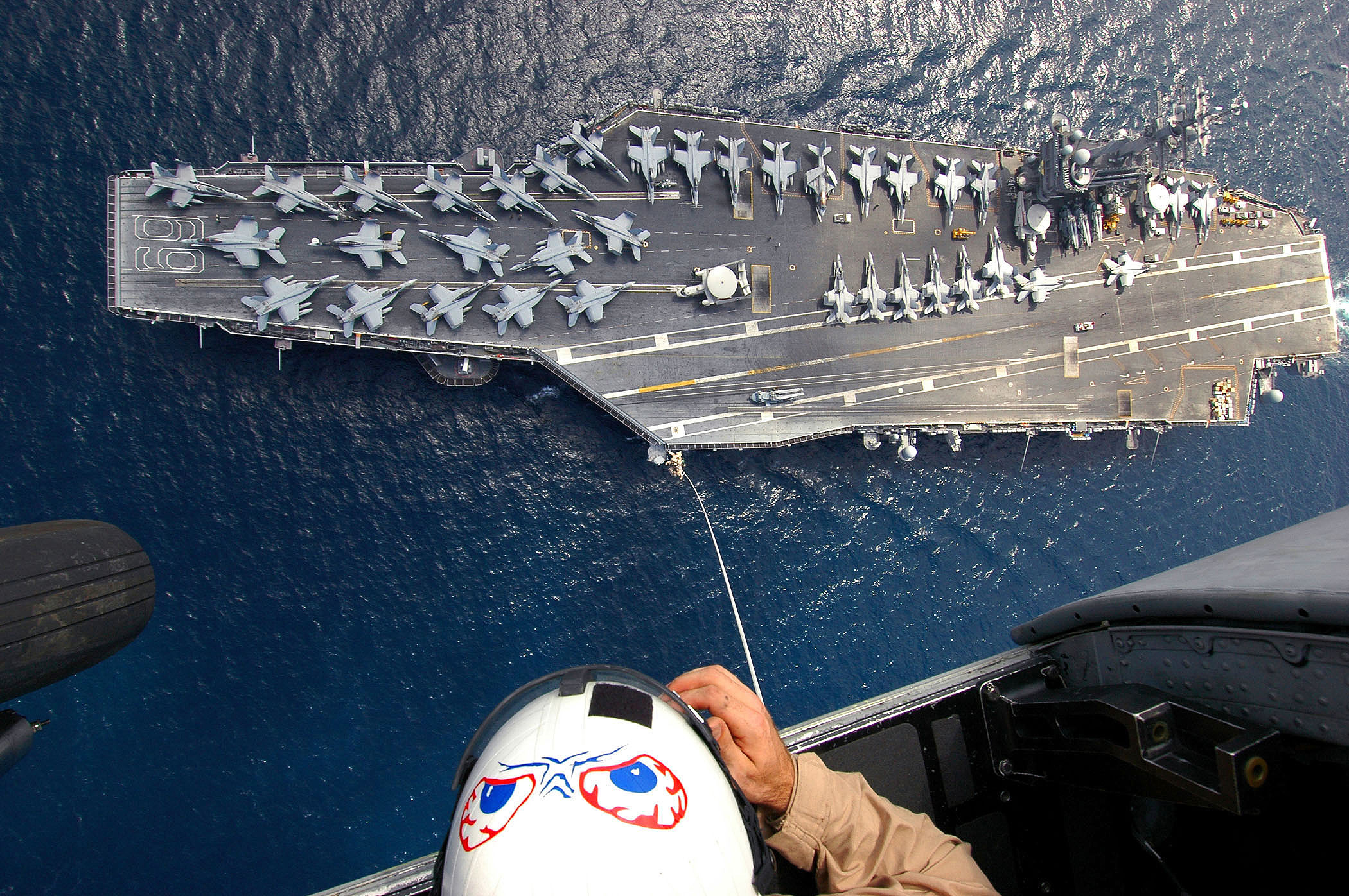 Explosive Ordnance Disposal 1st Class Christopher Courtney assigned to Explosive Ordnance Disposal Mobile Unit Six (EODMU-6), Det. 16 assist his team members during Special Purpose Insertion Extraction (SPIE) training from an SH-60 Seahawk helicopter. The Nimitz-class aircraft carrier USS Dwight D. Eisenhower (CVN-69) is deployed in support of Maritime Security Operations (MSO) and the global war on terrorism.